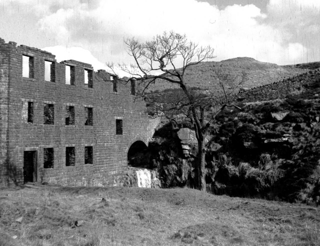 Cheesden Lumb Mill, Lancashire This former woollen mill was built in 1786, just below the confluence of Cheesden Brook and Kilgate Brook. At first it was a fulling mill, but it later extended its activities to include carding, bleaching and dyeing. However it later changed to spinning cotton waste, and ended up producing lamp wicks. The mill closed around 1898 and was abandoned. According to my father the roof still remained in about 1920, but it is seen here in 1952. However, since that time, much of what is seen here has disappeared - probably stone thieves are to blame for this.